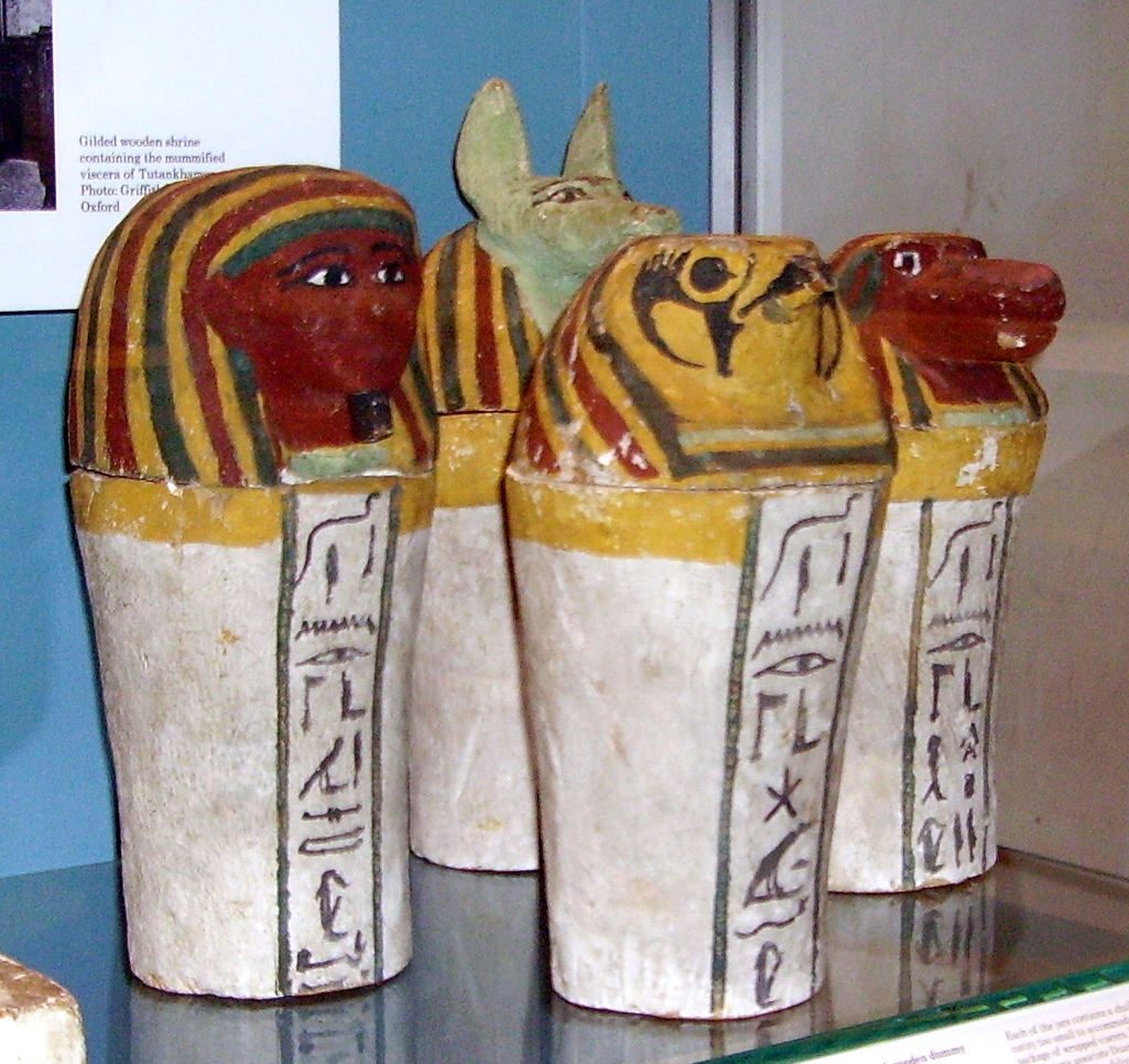 Canopic jars. Photograph taken by me; British Museum 26/1/07